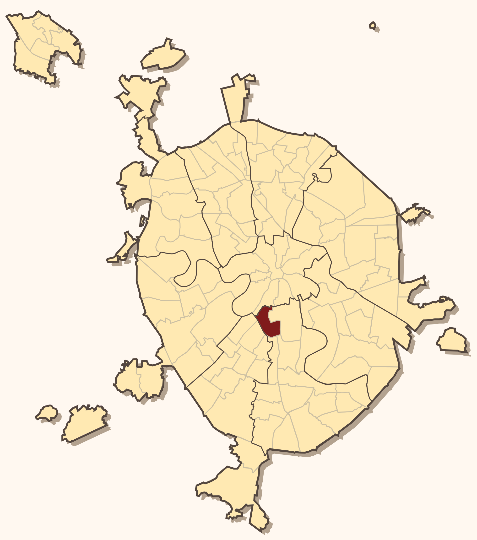 Moscow districts map